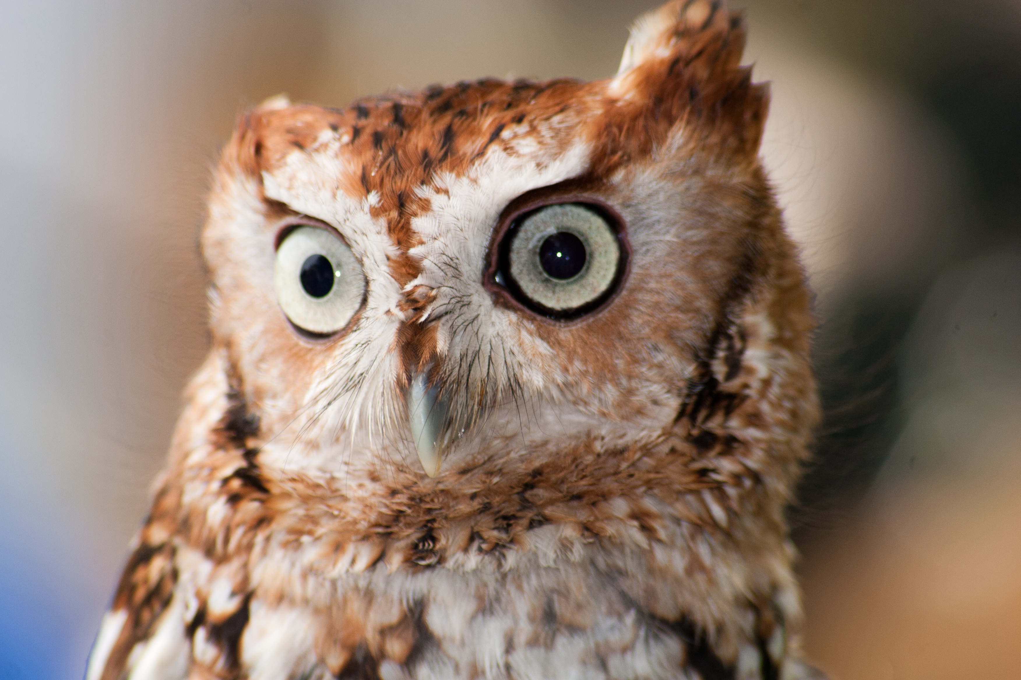 From Wilderness Road State Park's highly successful Remarkable Raptors program.